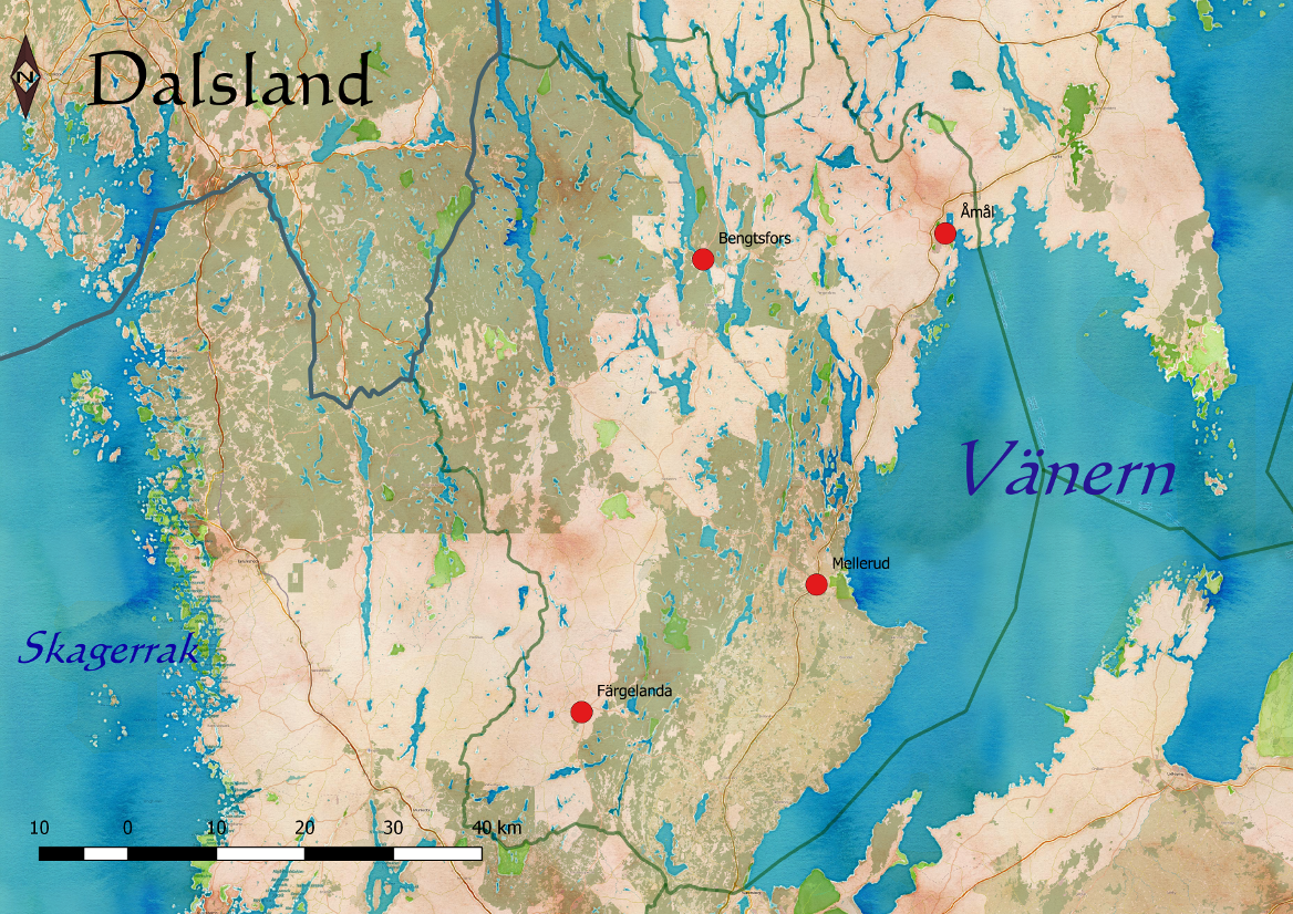 A simplified map for the Swedish region Dalsland intended to be used by children in elementary school. This map may be incomplete, and may contain errors. Don't rely solely on it for navigation.